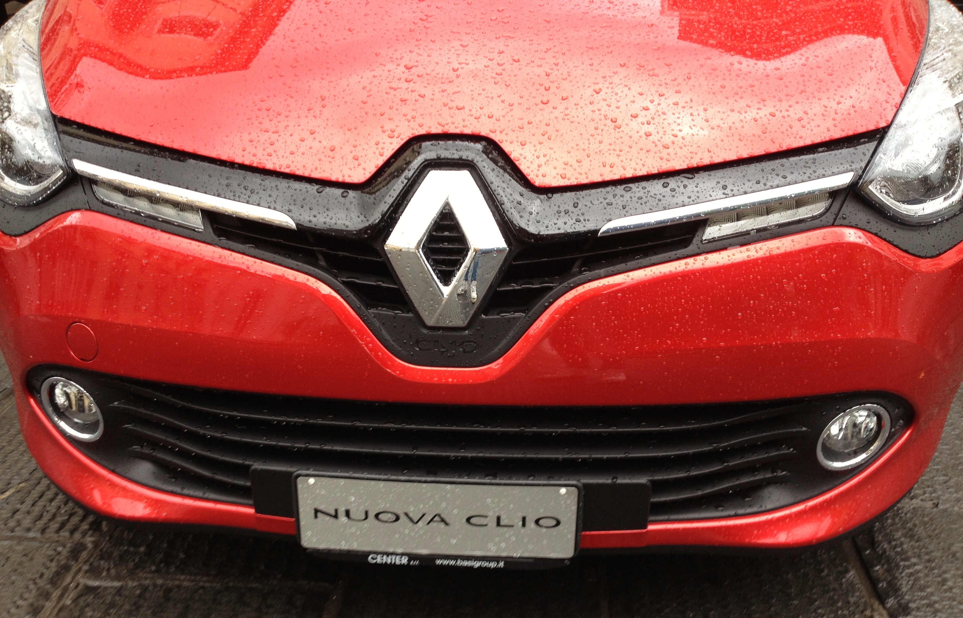 2012 Renault Clio IV front logo